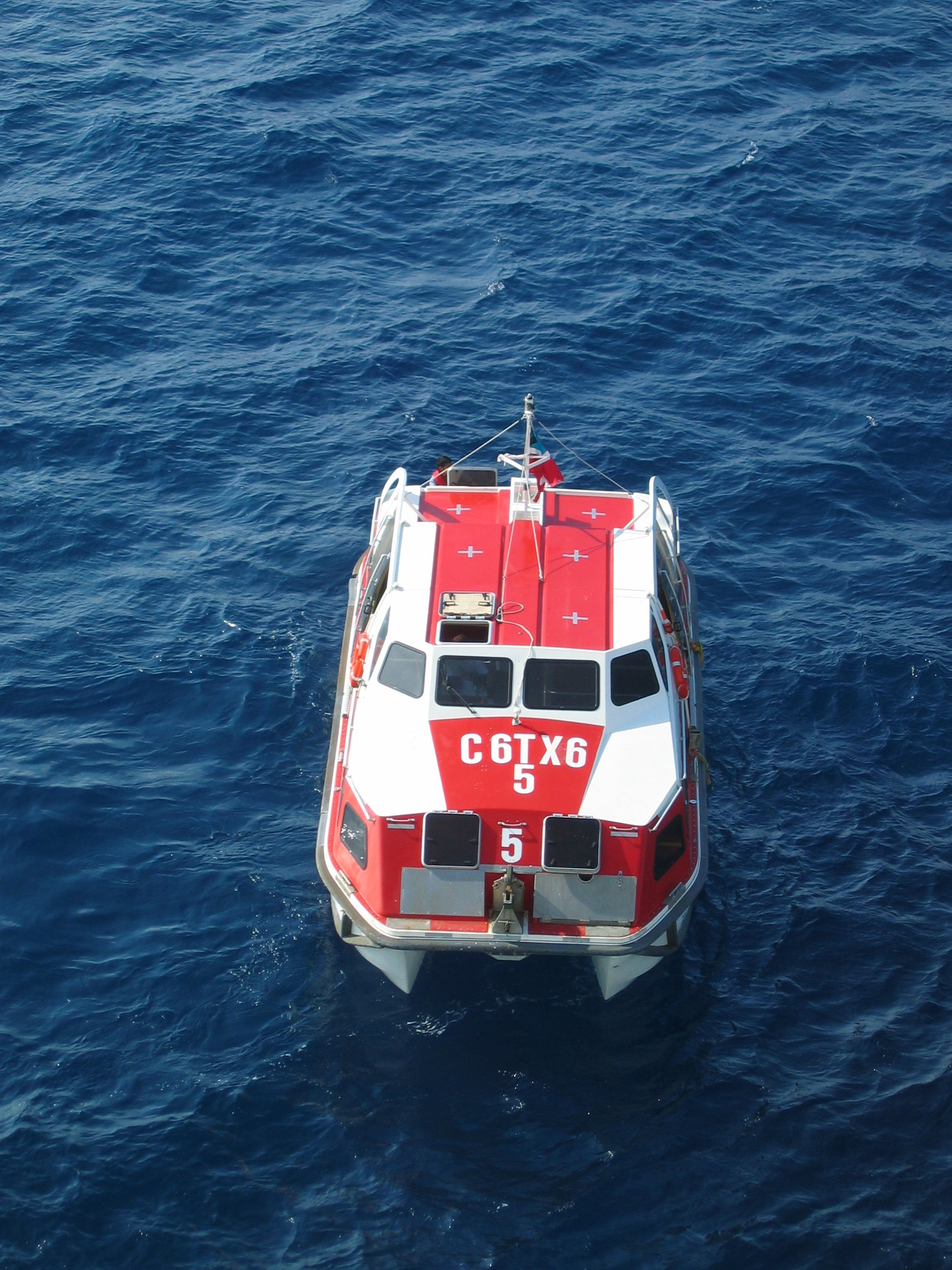 Tender ship approaching Norwegian Cruise Line's ship Norwegian Jewel. Offshore at port of Roatan Island, Honduras, Central America.